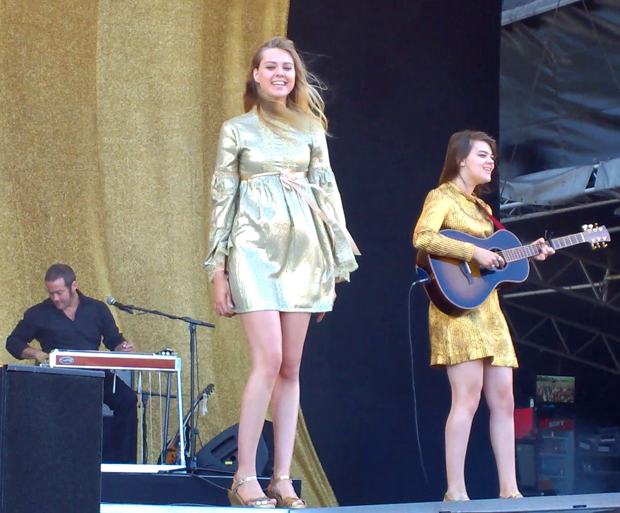 First Aid Kit singing at Ruisrock Festival, Turku, Finland